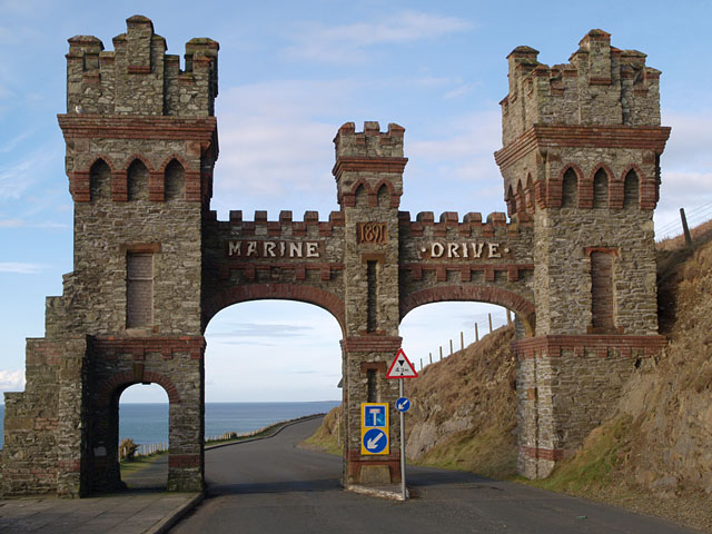 Gate - Marine Drive. Isle of Man. The Marine Drive was originally constructed as a tramway. The photo shows the entrance gate with the arches for the two tram tracks.